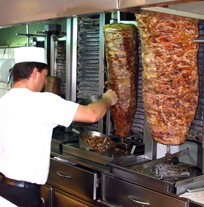 Gyros skewers in a souvlatzidiko, a Greek souvlaki shop